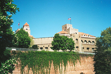 Belgrade Military Museum. Photograph by messieur Bernard Cloutier, used with permission (from The photograph could also be bought for any use outside the GFDL; if interested, contact messieur Cloutier's agent Miguel Torres.